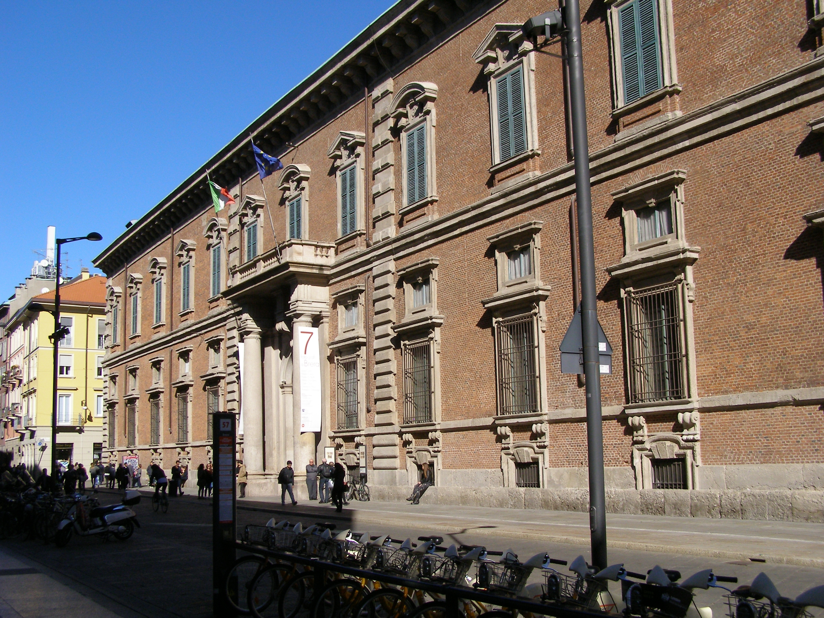 Milan - Brera Palace